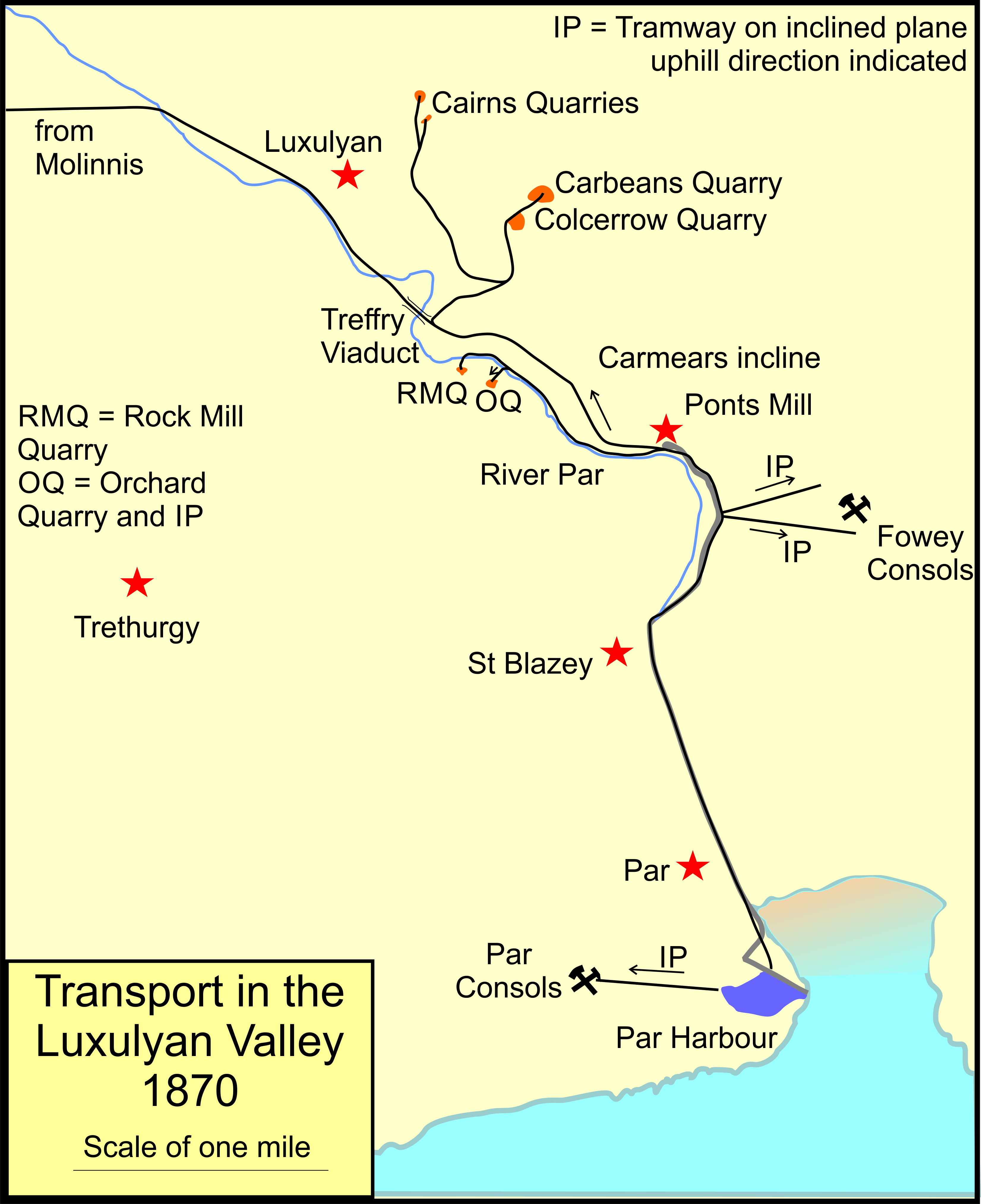 Tramways in the Luxulyan Valley in Cornwall, England, in 1870